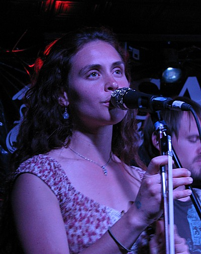 Bridget Law with Elephant Revival in Asbury Park, NJ, June 2011